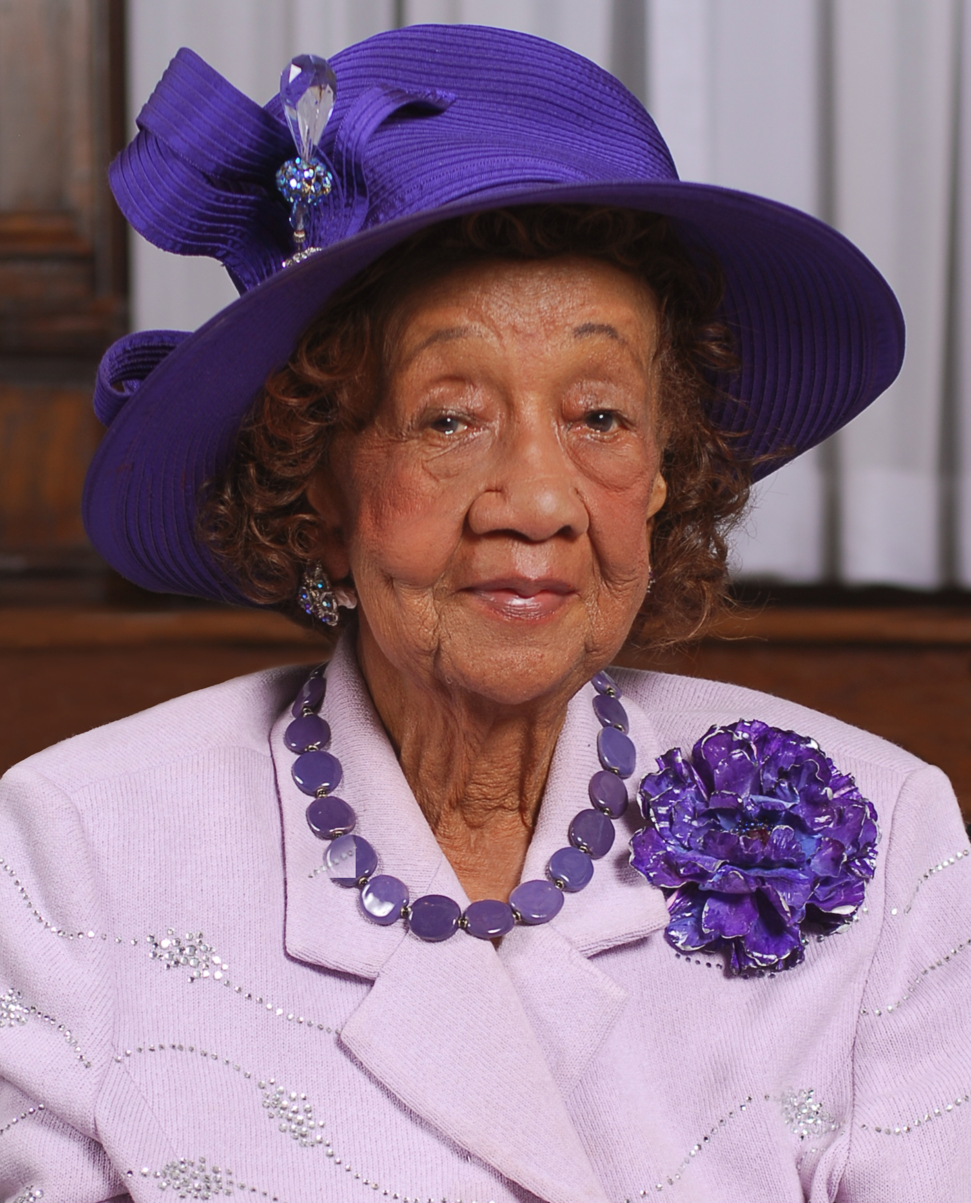 Portrait of Dr. Dorothy Height taken in June 2008